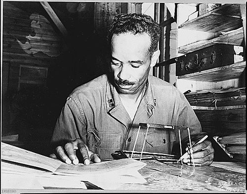 Original caption: Capt. Eugene C. Cheatham of Montclair, N.J., serving with the Fifth Air Force's 67th Tactical Reconnaissance Wing at an advanced Korean airbase, is shown studying aerial photographs taken by photo-reconn aircraft of the 67th Wing. He will interpret the information on the prints, report his findings to higher headquarters, who will assign targets to tactical Fifth Air Force Fighter, fighter-bomber and light bomber units for combat strikes.